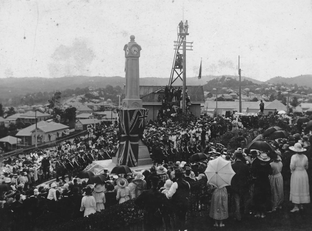 Unveiling of the Ithaca War Memorial in Paddington, Brisbane, 1922 The unveiling of the Ithaca War Memorial Clock beside the Ithaca Fire Station on Enoggera Terrace. The photograph looks from Enoggera Terrace towards Paddington Heights to the extreme right, and Government House, Bardon on the left.